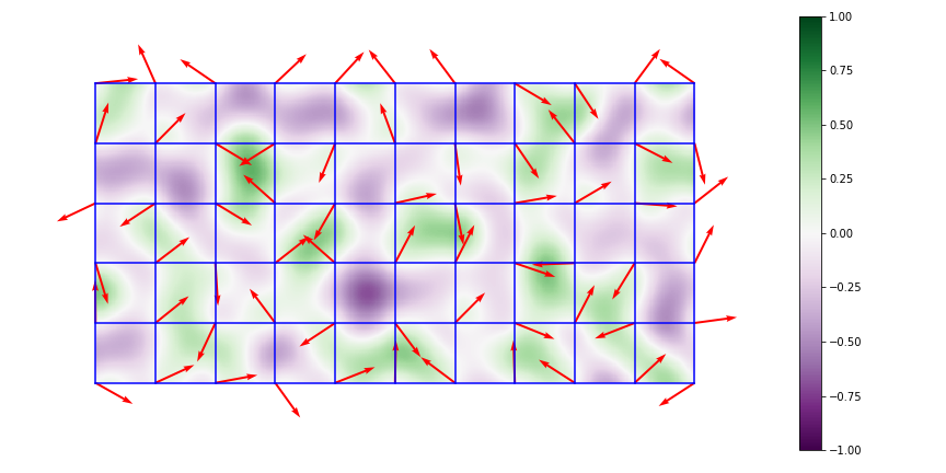 The interpolated result of 2d Perlin noise